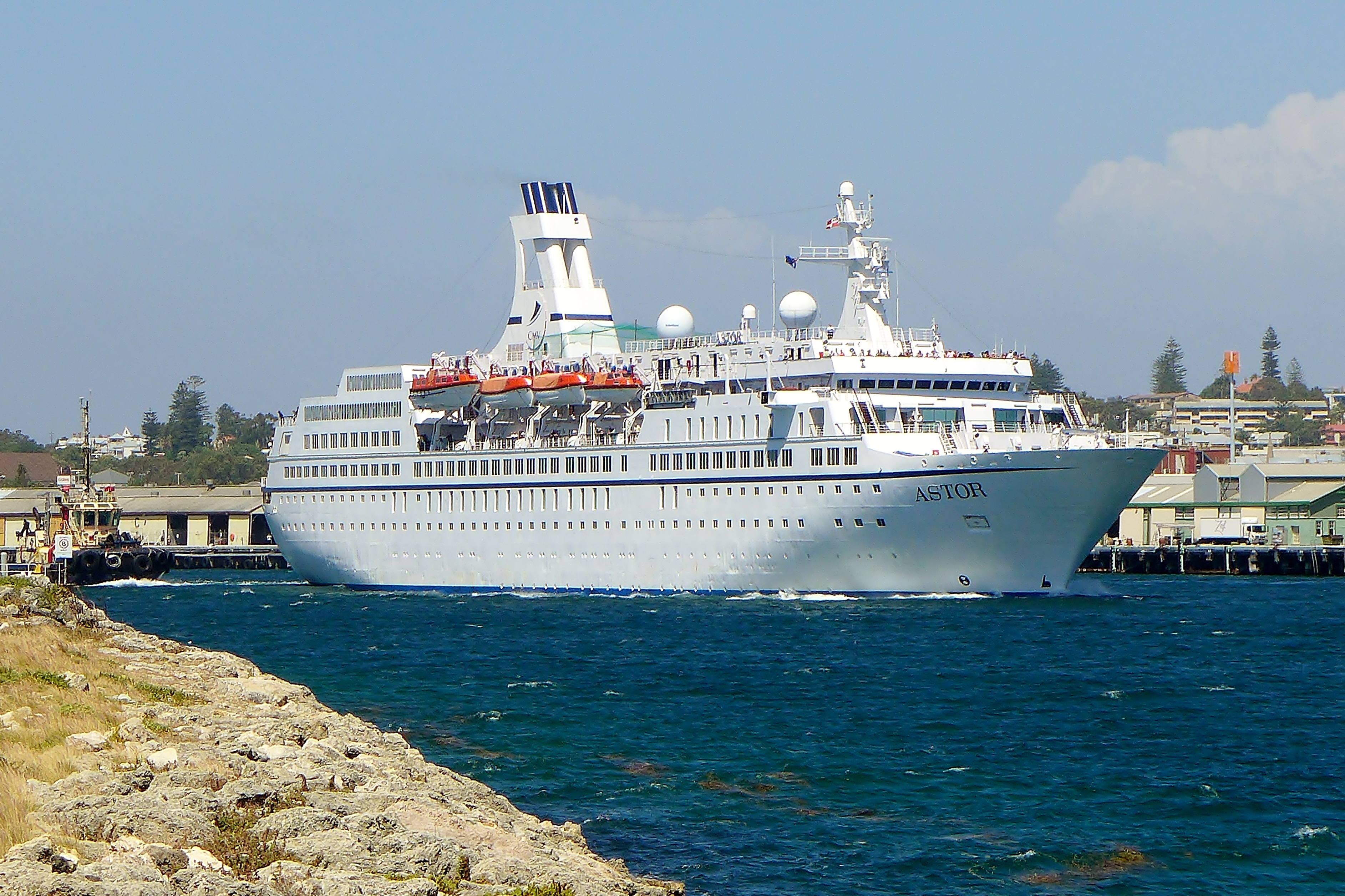 MS Astor departing from Fremantle Harbour, Western Australia, on a cruise to Bali and return.